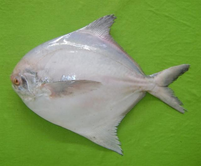 Pampus argenteus collected in Pakistani Indian Ocean.